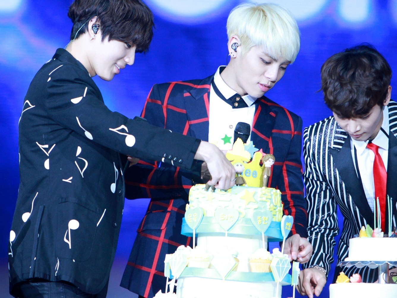 Shinee at the SHINee Festival Tour in Shanghai on November 30, 2013.